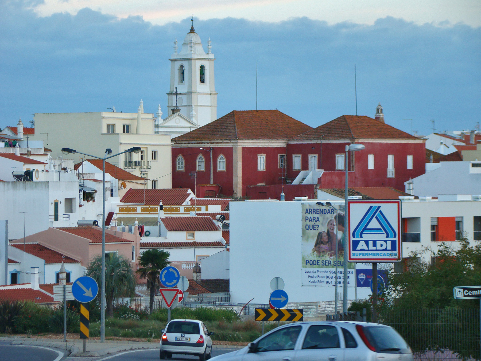 Alcantarilha